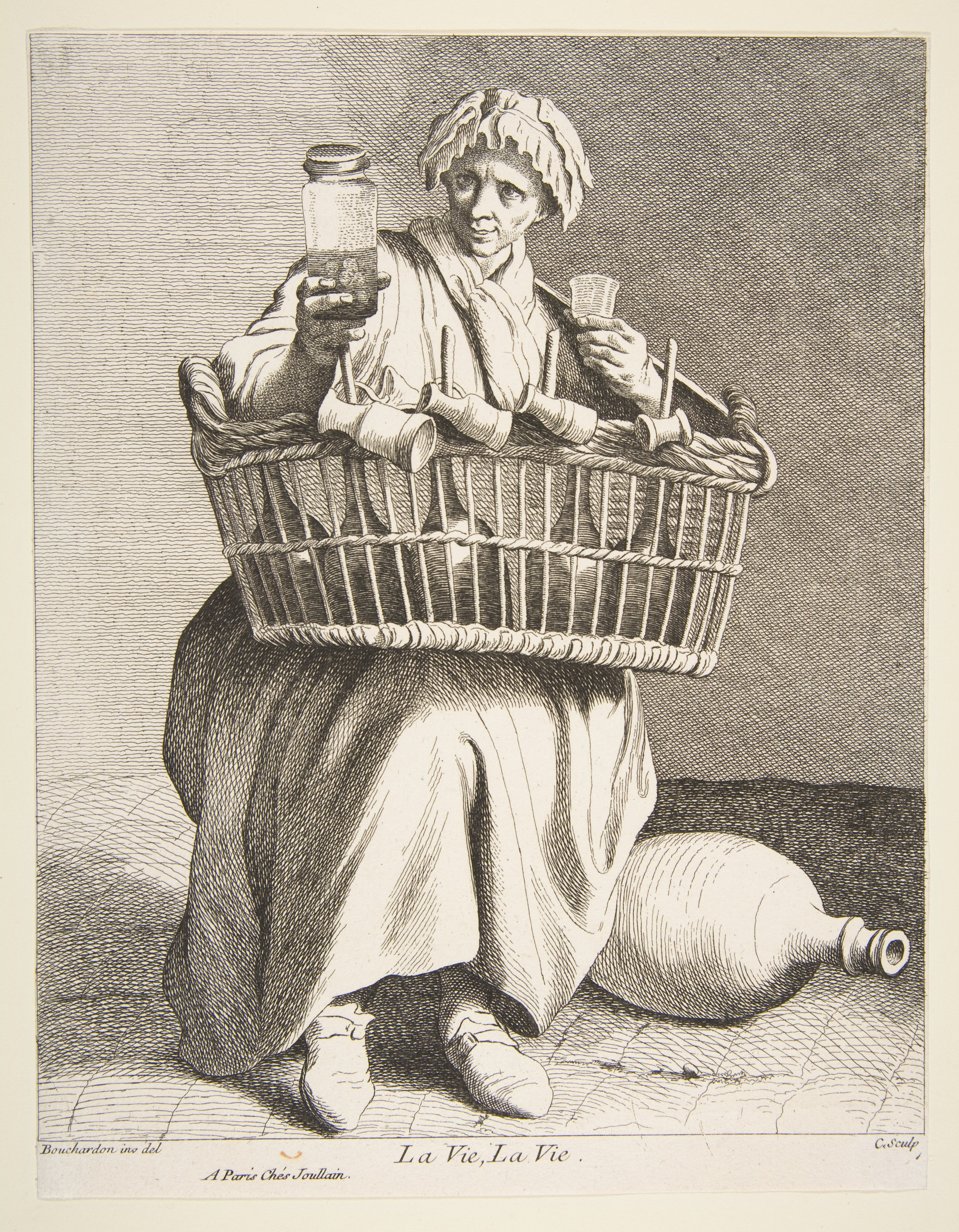 Brandy Seller. Old woman selling eau-de-vie; sitting, facing front, with a large basket containing bottles and small pitchers on her lap, and holding a jar and a glass.